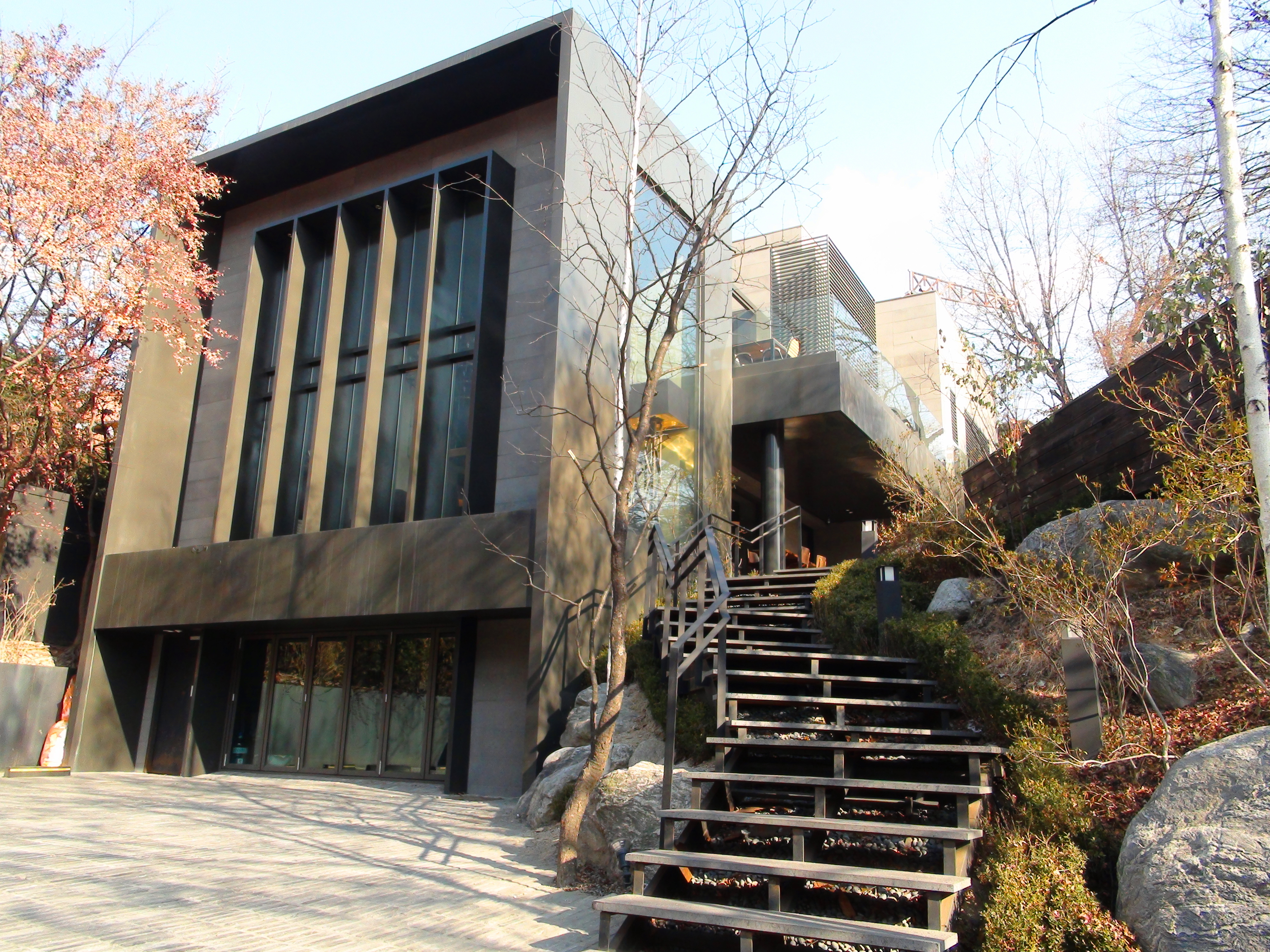 Korean TV drama "49 days" in restaurants of Location "ANDO"